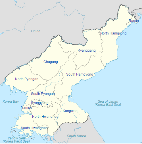 North Korea location map